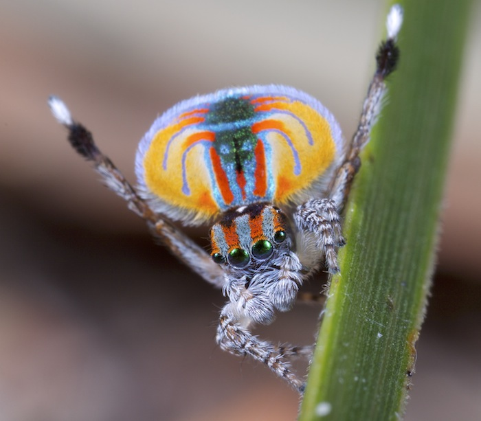 A reduced-resolution but still truly exceptional image of a male Maratus volans peacock spider made available through generous donation of its original author. Higher resolution image may also be viewed at